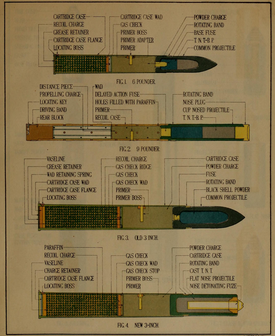 Diagram of various ammunition types used in the Davis gun